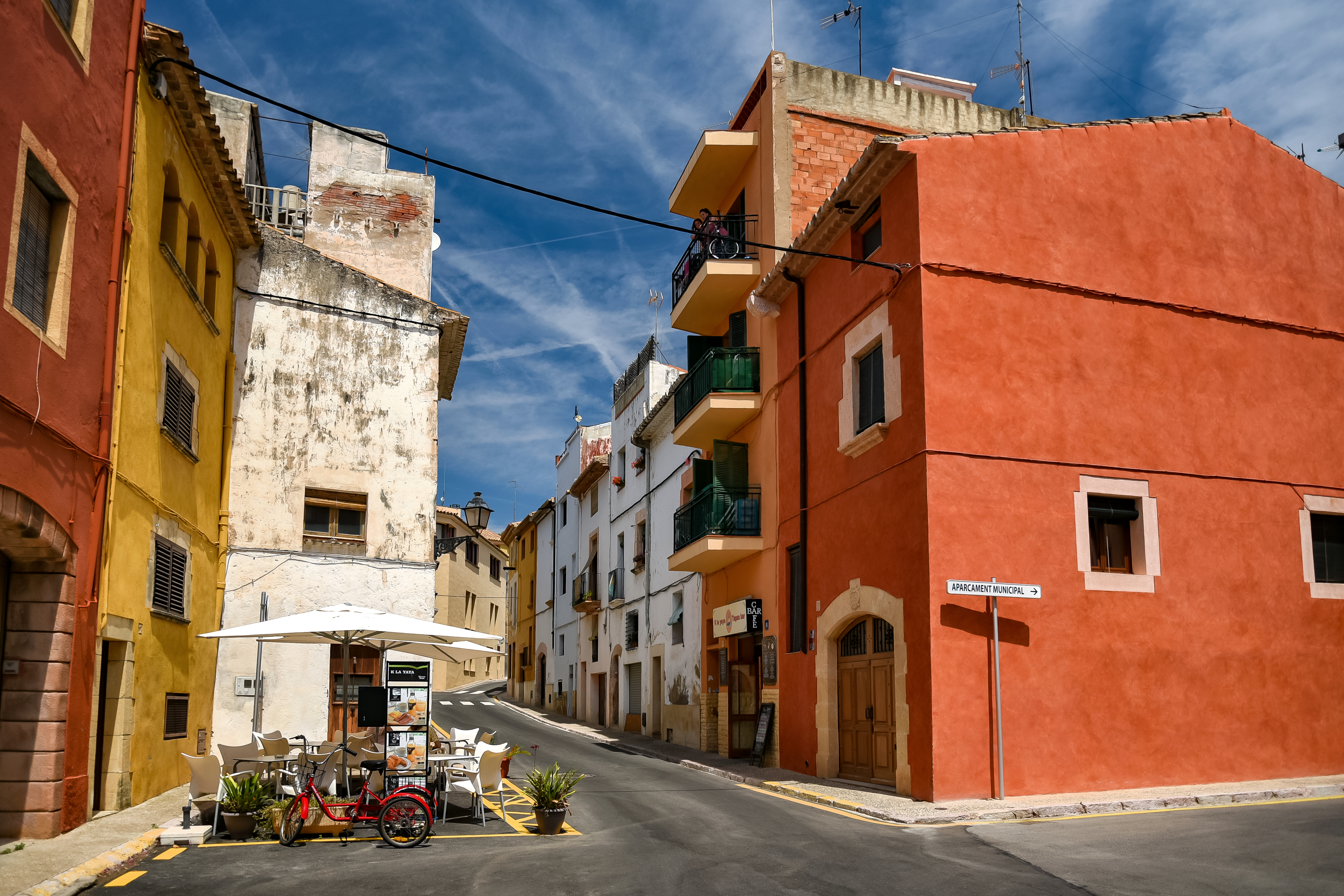 Altafulla (Tarragona, Spain)